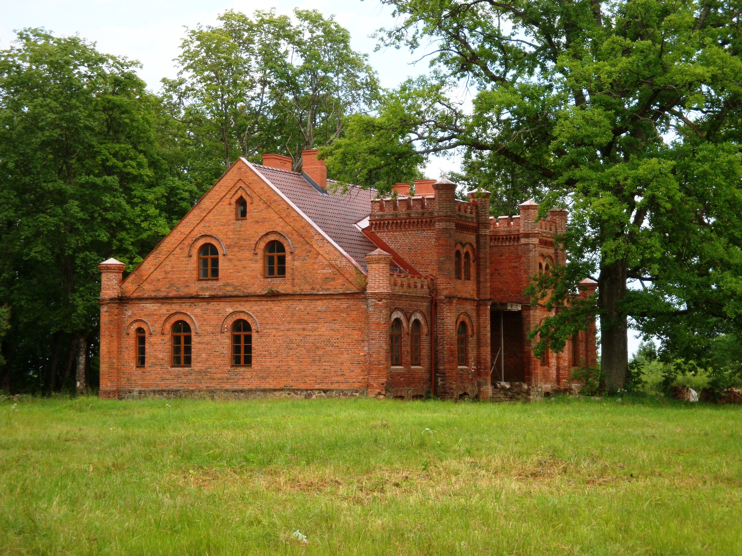 Eck (Ķipēni) manor